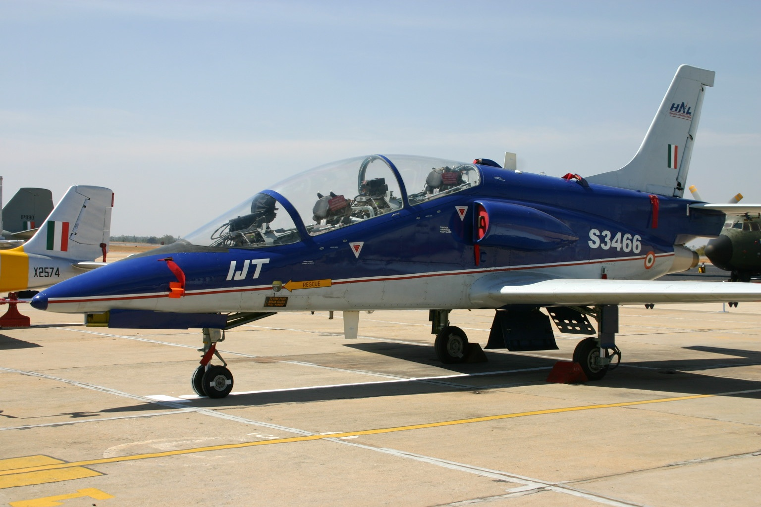 At Bangalore Yelahanka Air Force Base